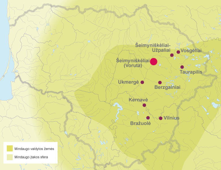 Lithuania during Mindaugas' reign and its major castles (Voruta - may have been a capital of the Grand Duchy of Lithuania established in the time of king Mindaugas in the 13th century.) (LITHUANIAN VERSION)